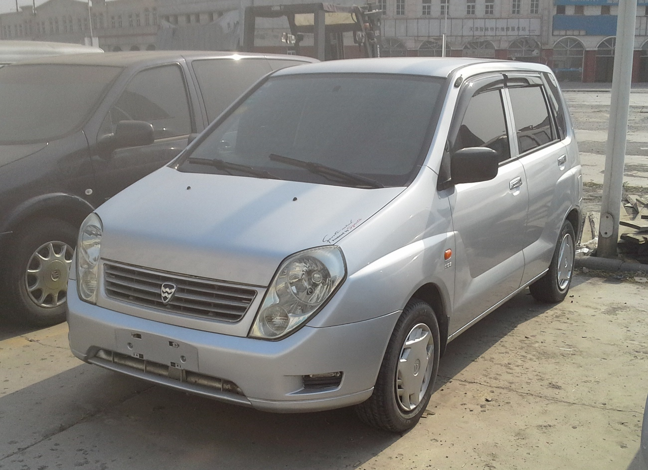 Hafei Saima photographed in Tianjin, China.